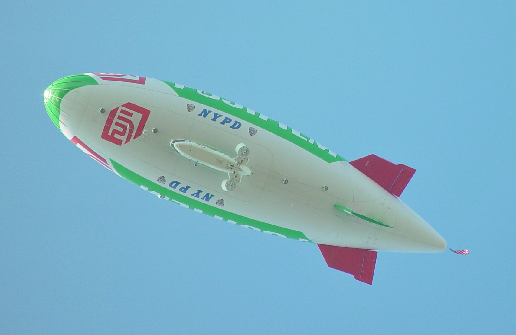 Police surveillance of the protests at the Republican National Convention, New York City.